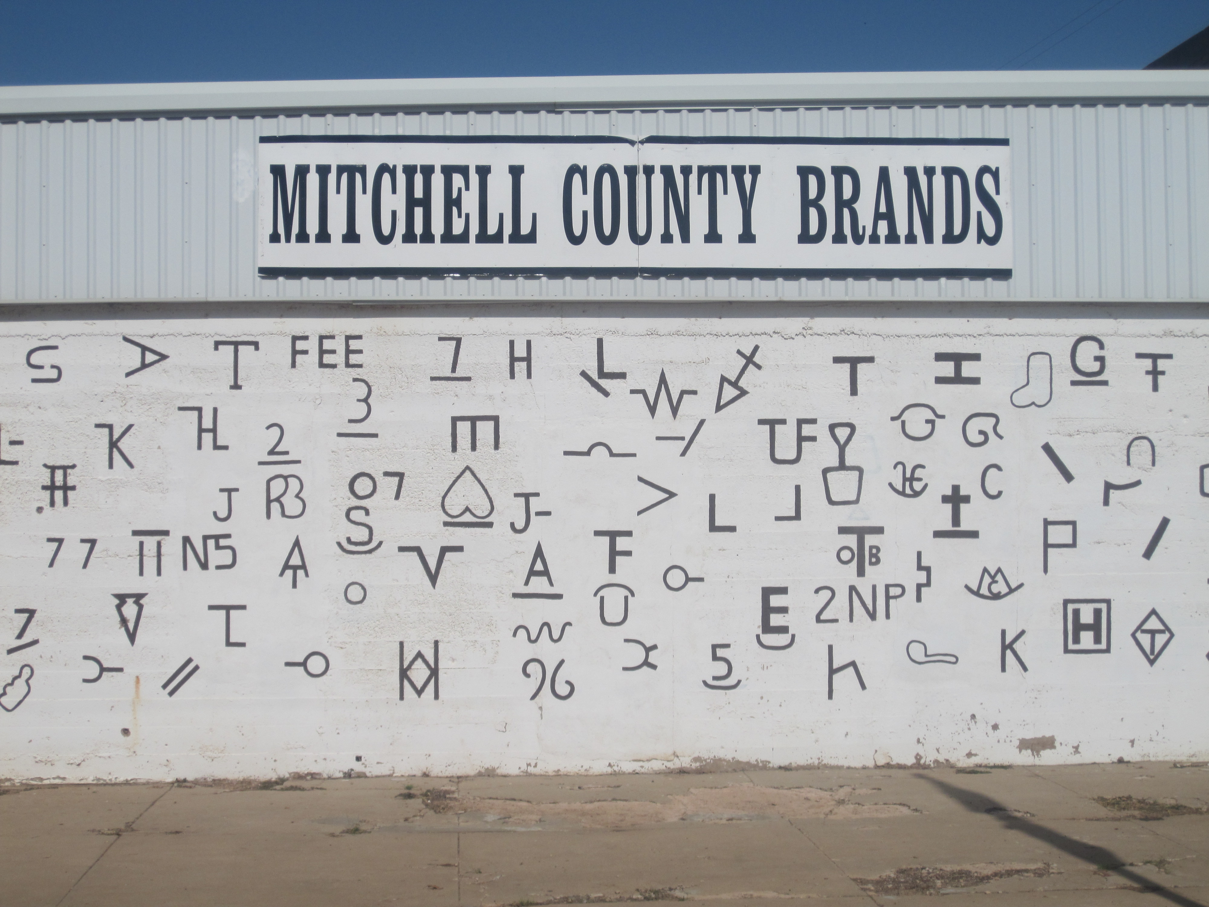 I used Canon camera. Photo taken in Colorado City, TX.